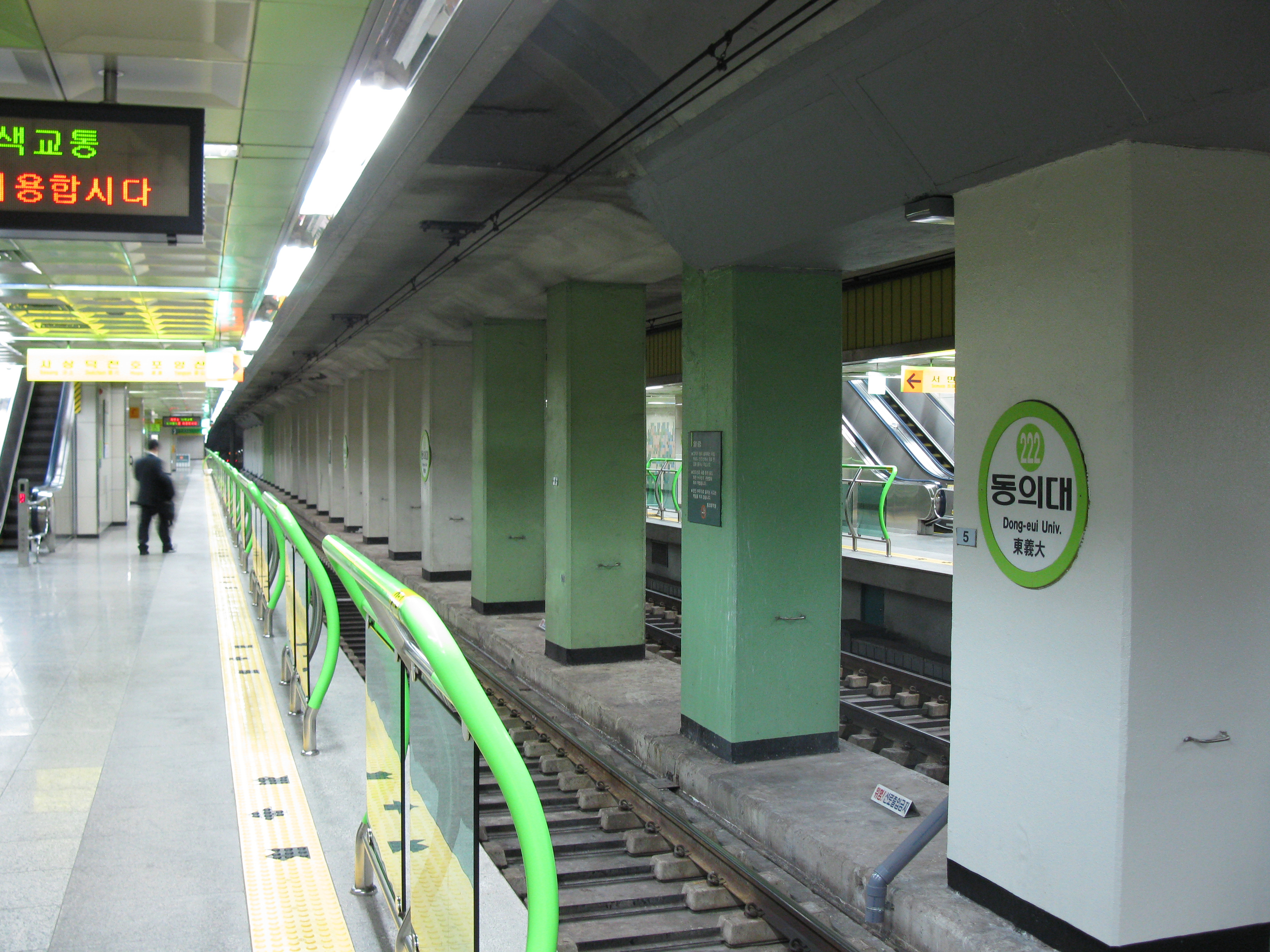 Dong-eui University Station platform (Busan Subway Line 2)